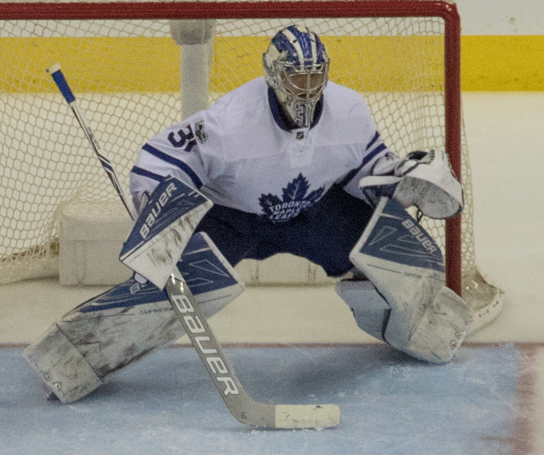 Frederik Andersen with the Toronto Maple Leafs during a playoff game on April 21, 2017.